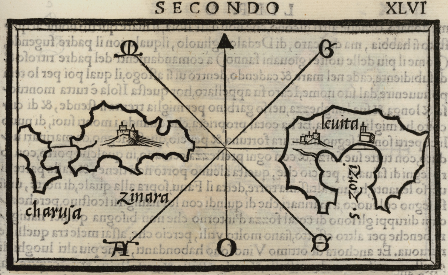 Isolario di Benedetto Bordone nel qual si ragiona di tutte l'isole del mondo, con li lor nomi antichi & moderni, historie, favole, & modi del loro vivere, Venice 1547.